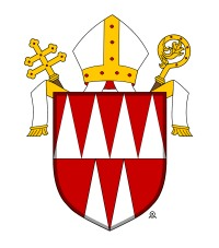 Coat of arms of Archdiocese of Olomouc, Czech Republic